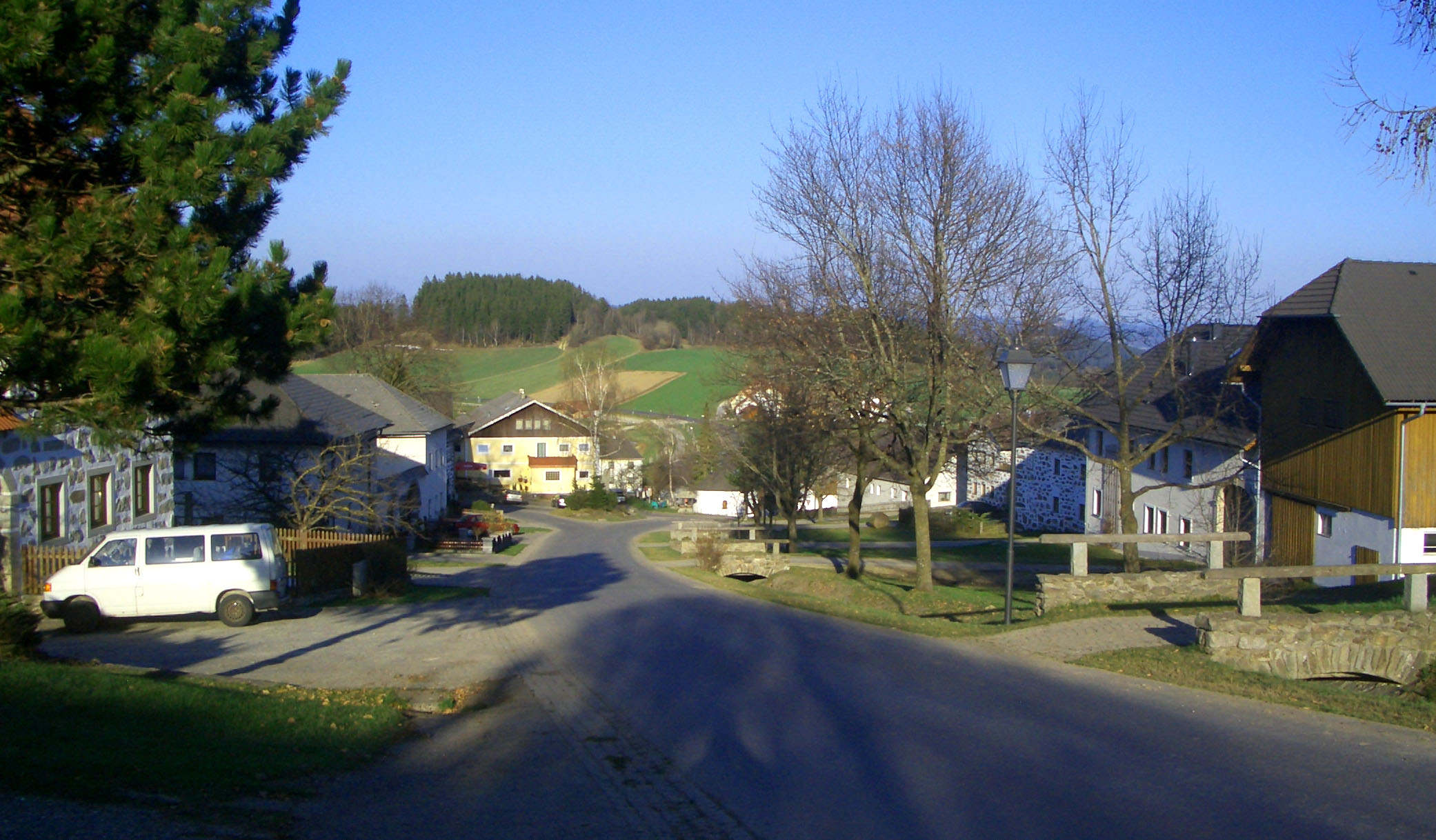 Ottenschlag in Upper Austria